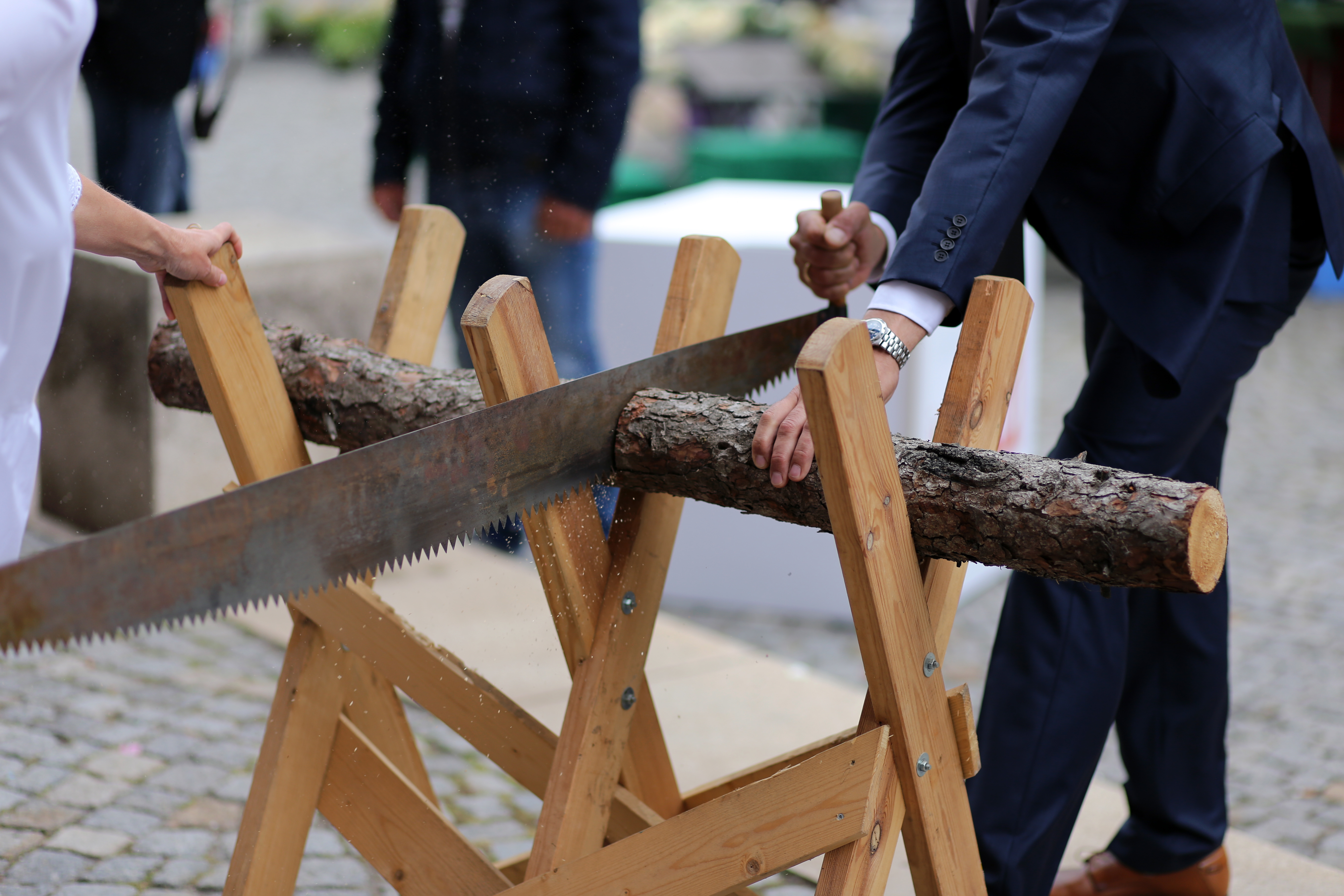 An old German wedding custom in some areas (here Nordhausen in Thuringia), the tradition of cutting a log represents the first obstacle that the couple must overcome in their marriage. They must work together to overcome the obstacle by sawing through the log. Using a large, long saw with two handles, the couple demonstrates their teamwork to friends and family.